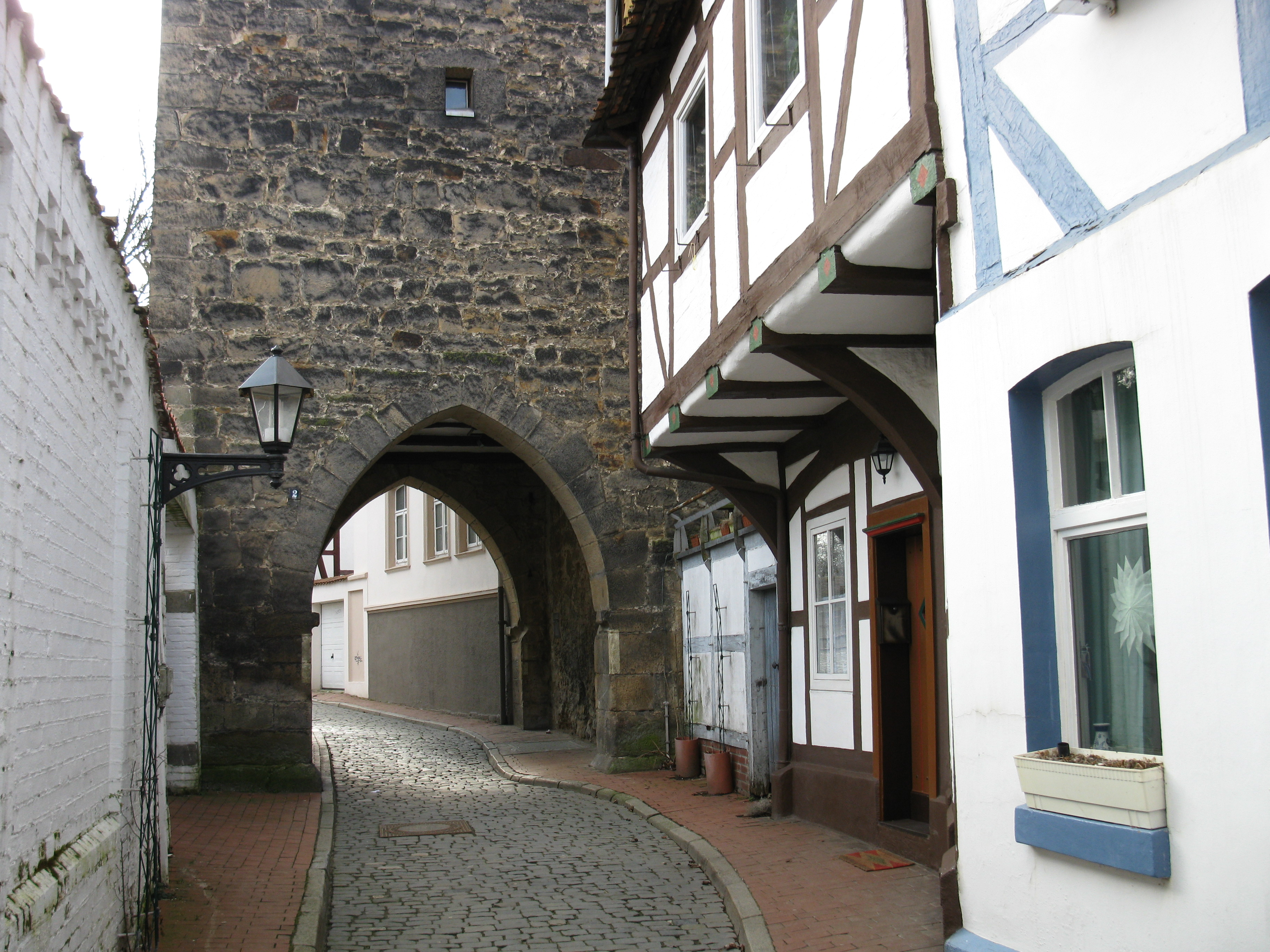 Street "Am Kehrwieder" in Hildesheim.